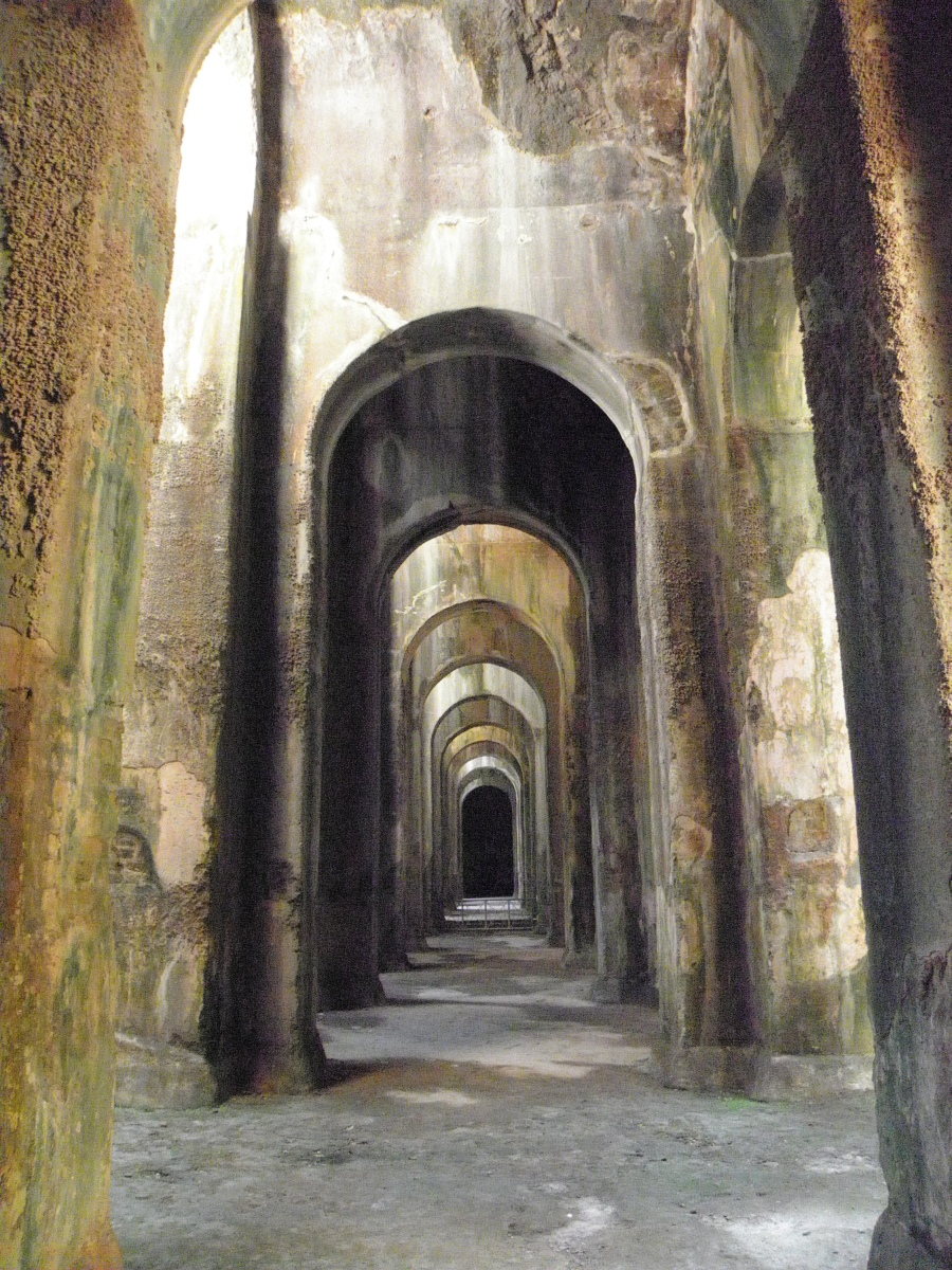 Baja